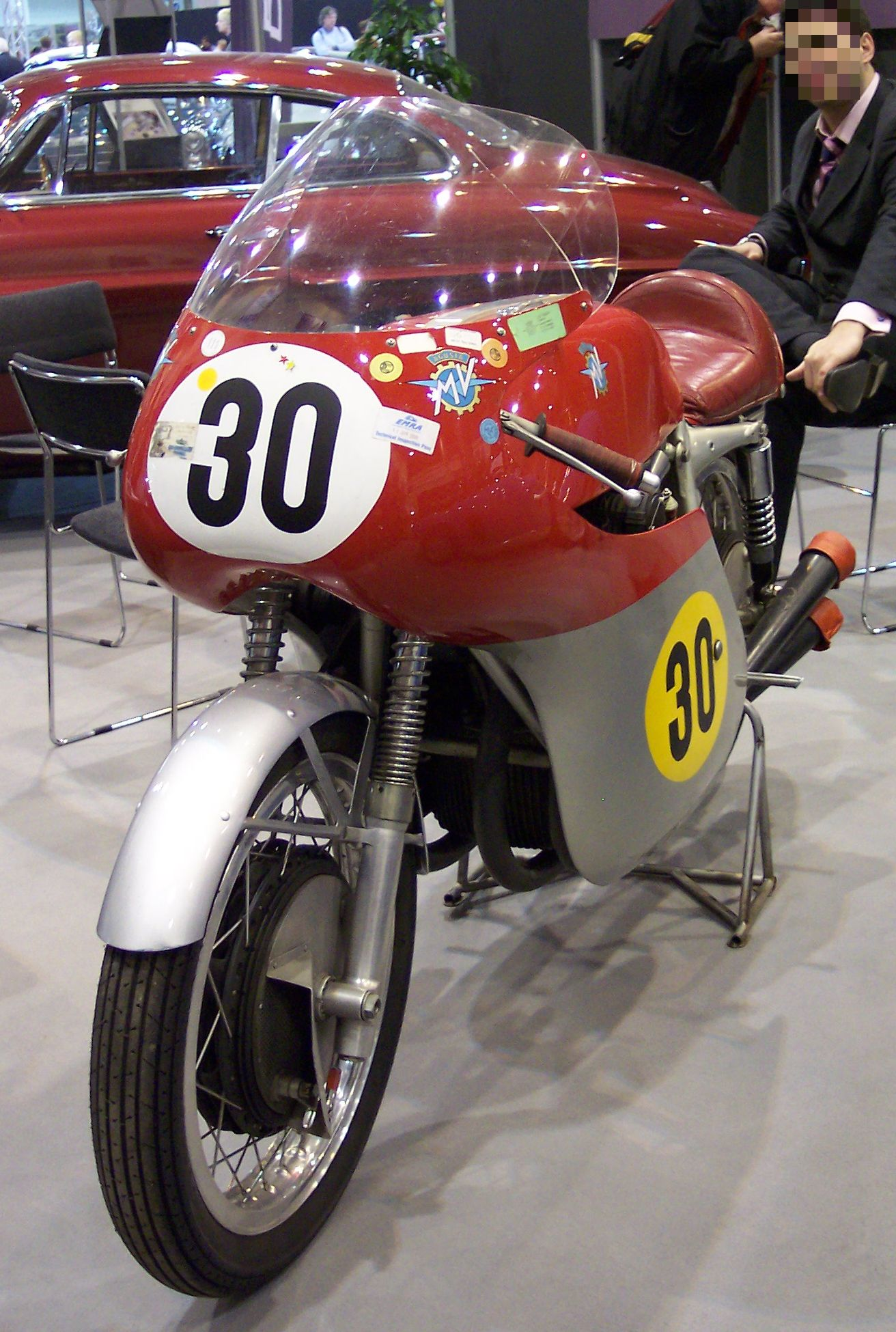 MV Agusta 500 Frame 1104 Engine 4